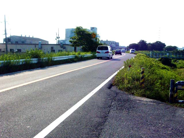 This photo is a view of Japanese Kyoto prefecture route 241 (Mukaijima-Uji line), Uji city section. This route connects 2 bridges on Uji river, between Kangetsukyo and Ujibashi. Uji city section has a definite center line, its width is stable and plain, easy to drive. Some part of this section has no guradrail.In night, drive carefully to prevent dropping.